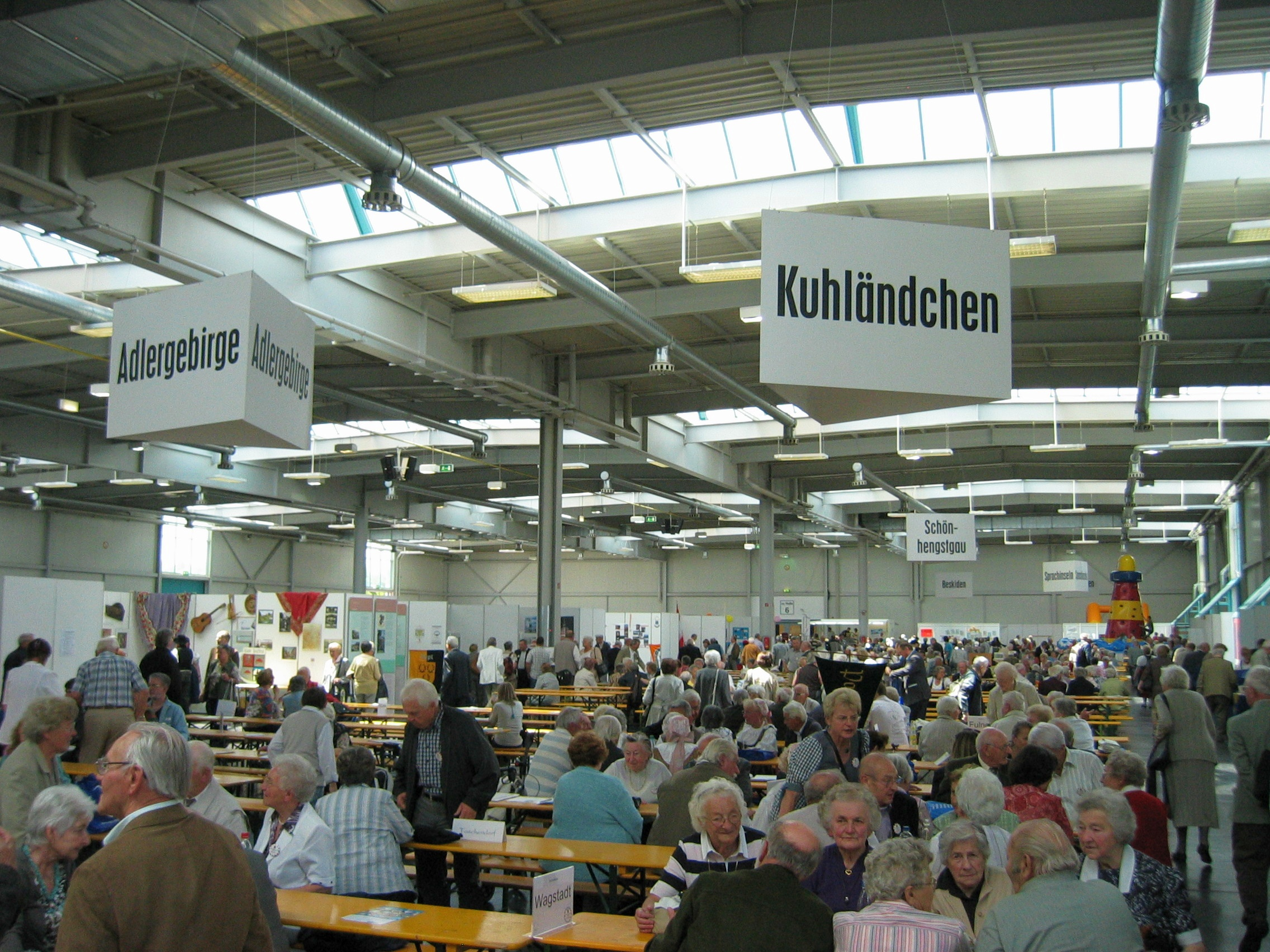 Traditional Pentecost-Meeting of the Sudetendeutsche Landsmannschaft and other Sudeten German refugees from the Sudetenland, 2011 in Augsburg.